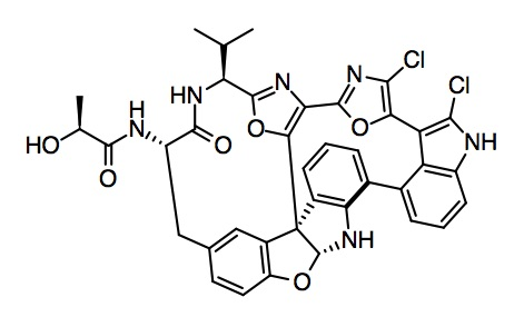 (-)-diazonamide A